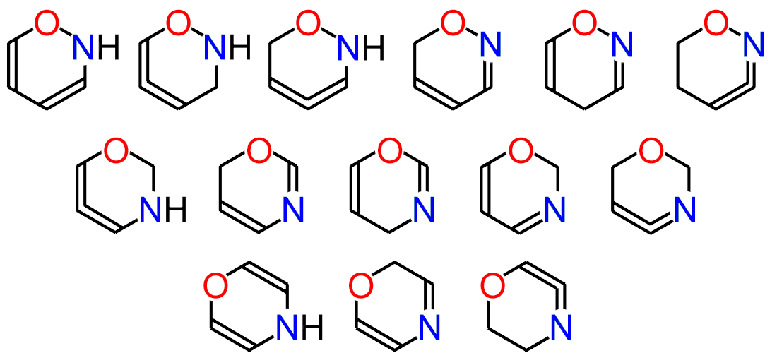 14 hypothetical isomers of oxazine. The allene structures are not stable and some likely do not actually exist.